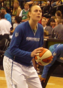 Created by user and released into the public domain.